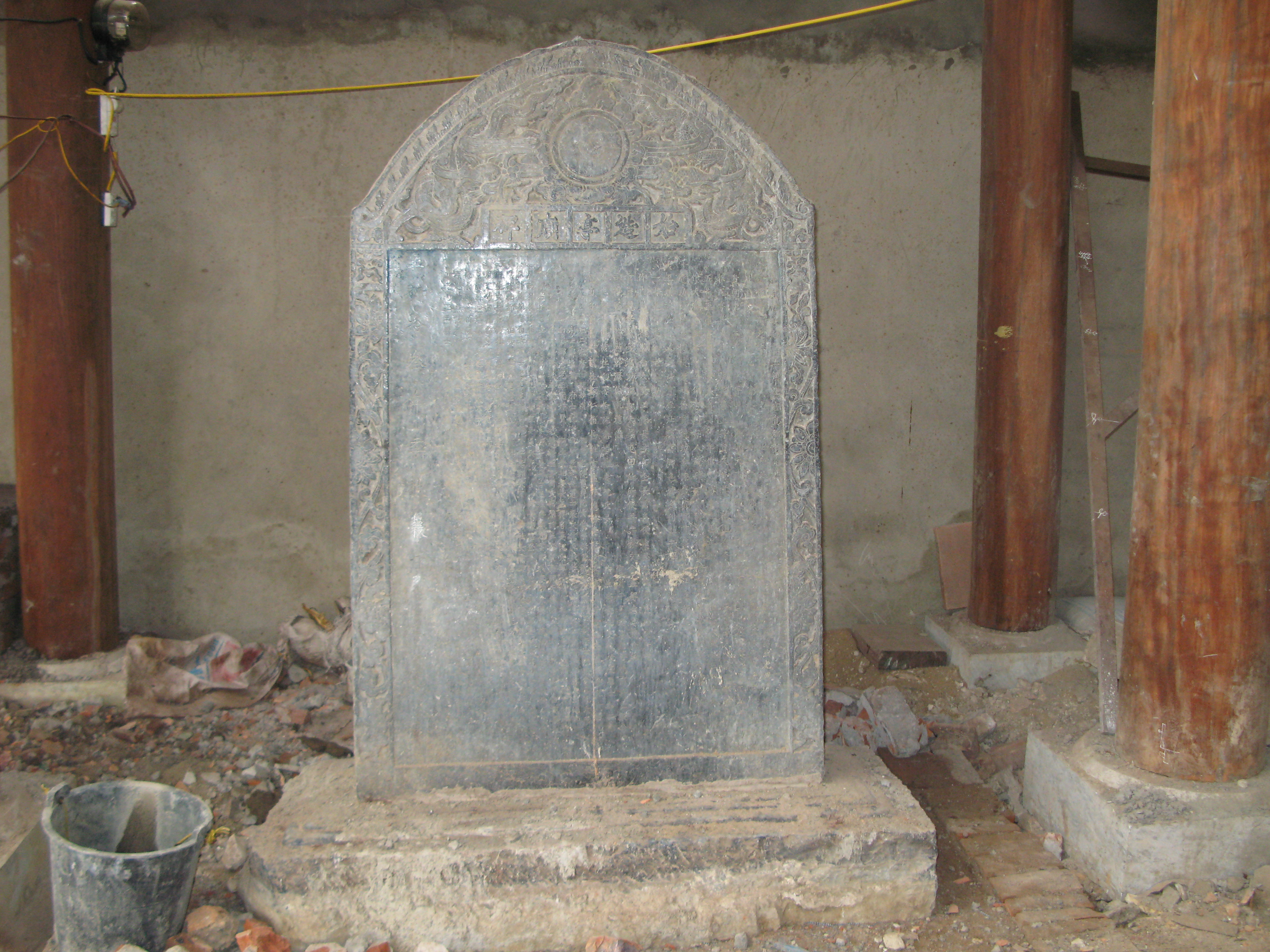 The stone stele "Thuy Tao Dinh Mieu Bia" lies in the Tho Ha temple of Tho Ha village, Van Ha commune, Viet Yen district, Bac Giang province